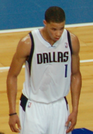 Marcelinho Huertas, Barca's starting PG